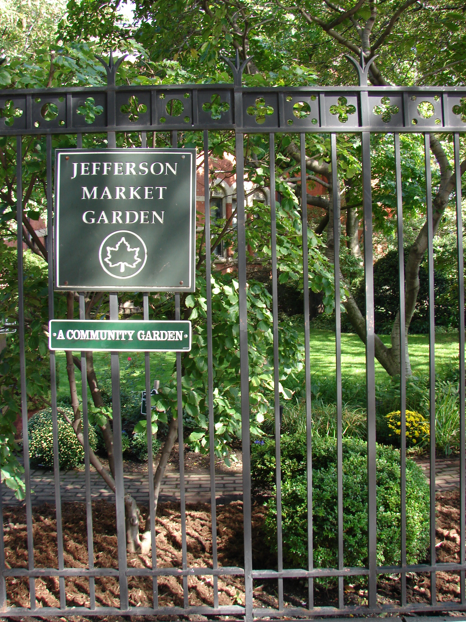 This photo is of Wikis Take Manhattan goal code R12, Community gardening.